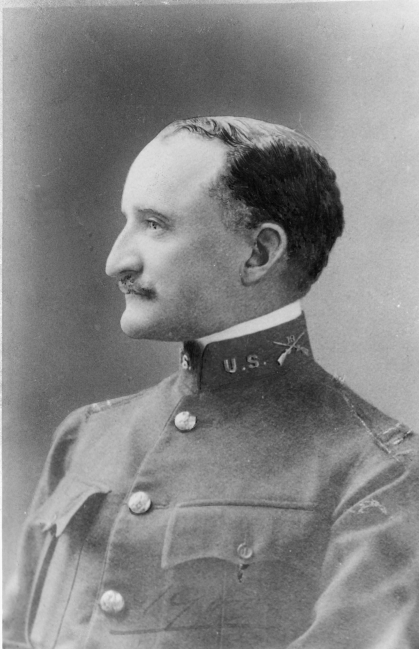 Head and shoulder portrait of Andrew Summers Rowan